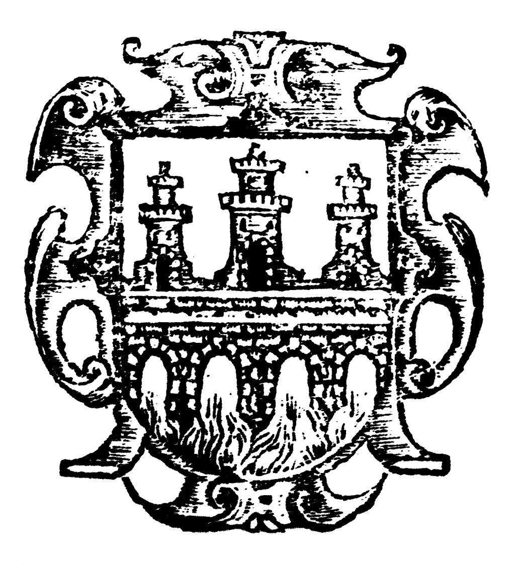 Coat of arms of Logroño (Spain), as it was published in 1633.